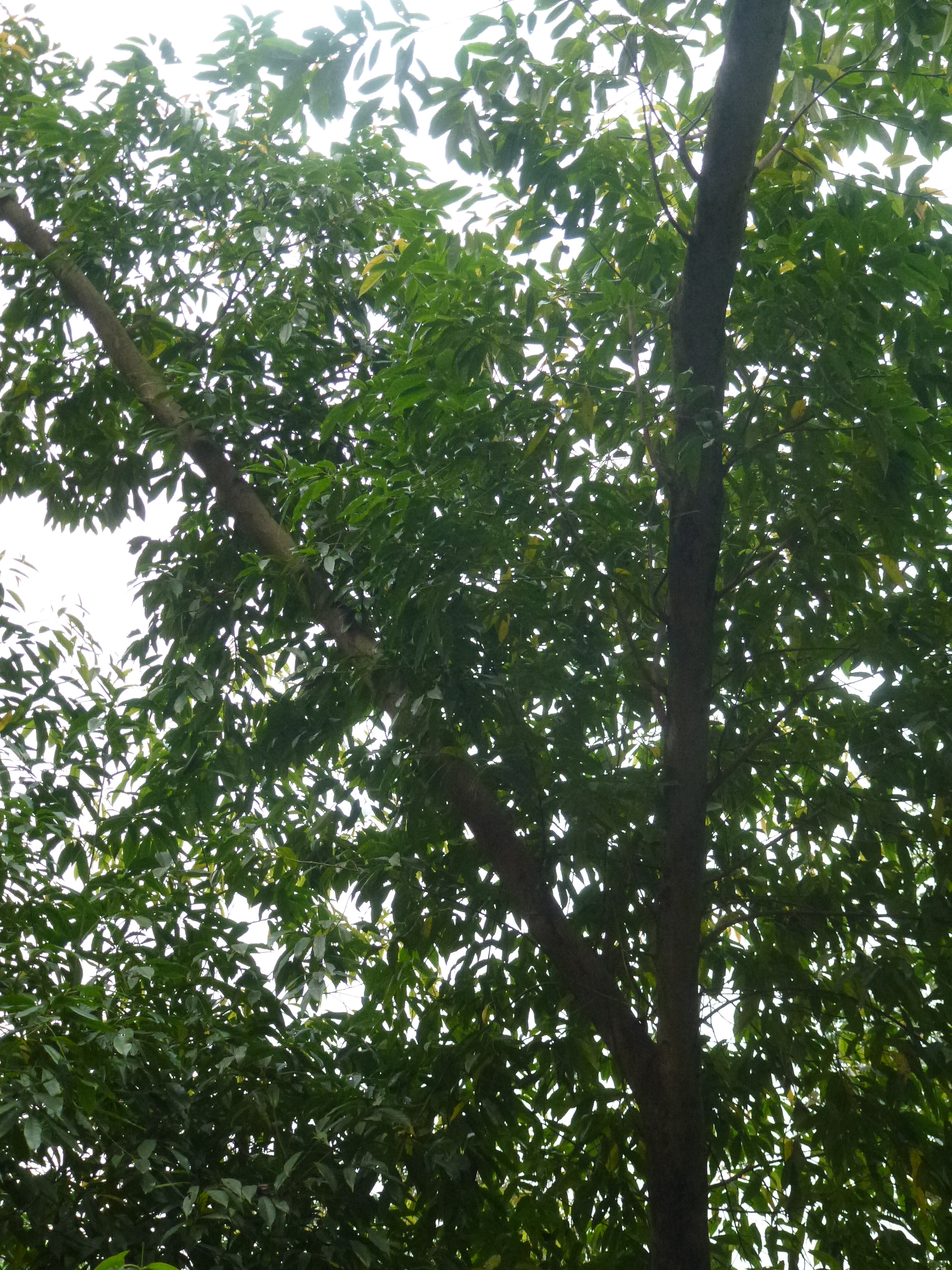 Elaeocarpus lanceifolius at Hùng Temple, Vietnam